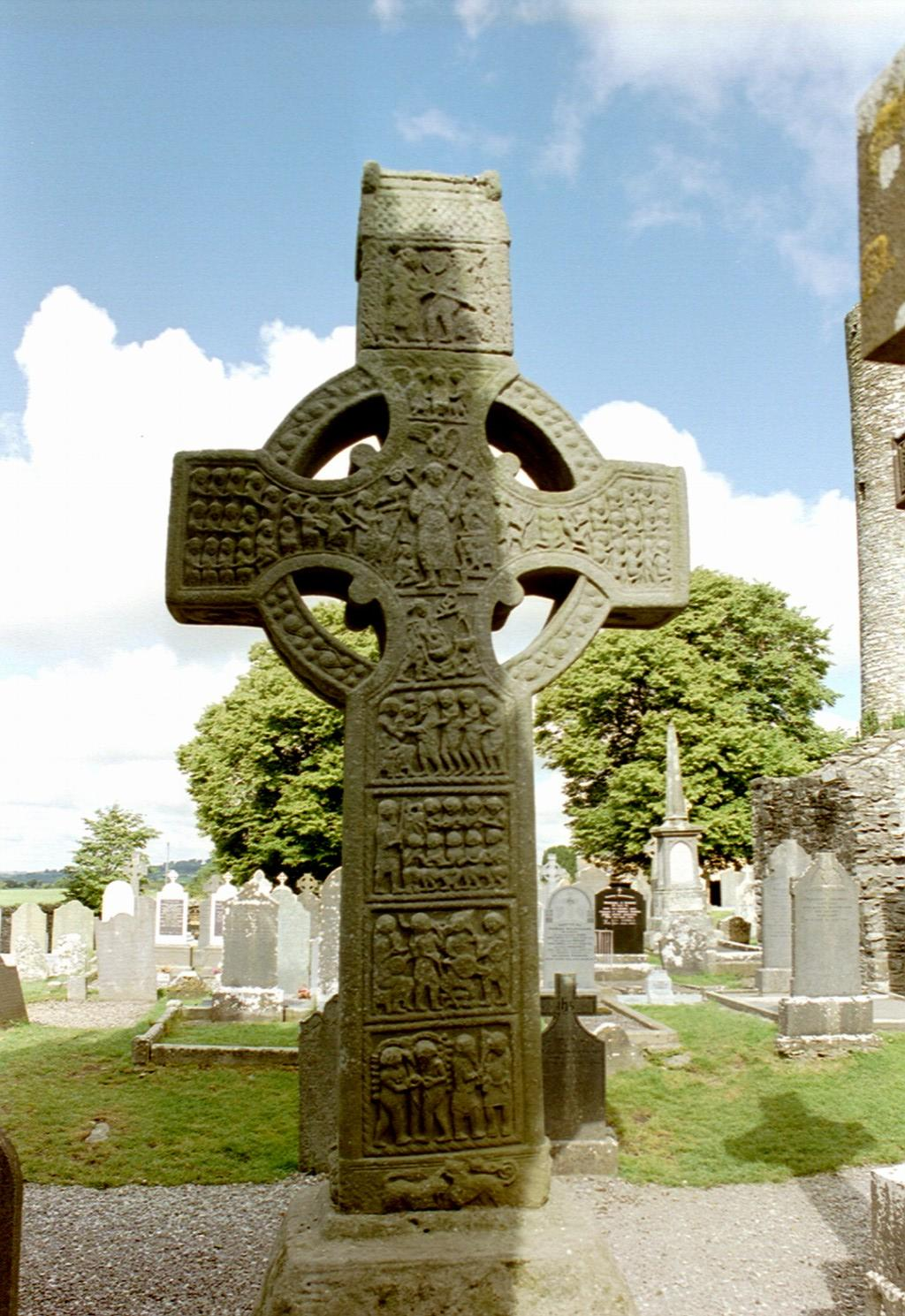 Photo of Muiredach's High Cross, located at Monasterboice, County Louth, in the Republic of Ireland.